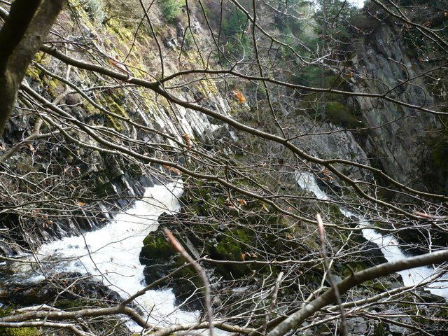 Conwy Falls Here the "misfit" river Conwy travels down a huge waterfall created by two glaciers which joined together at this point. Entry to the falls is a £1 coin through a turnstile. Taken looking from the viewing platform through the trees. The falls and rapids itself is a grade 6 kayak run.